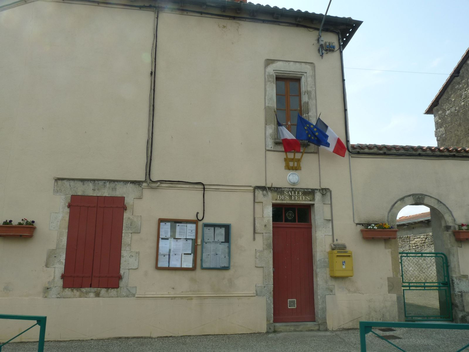 town hall of Le Grand-Madieu, Charente, SW France